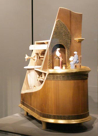 Leonardo3-EdoardoZanon-LibroDeiSegretiRisultantiDaiPensieri-IbnKhalafAlMuradi-OrologioConTrePersonaggiFigura11 - crop to get image in the enc. scope